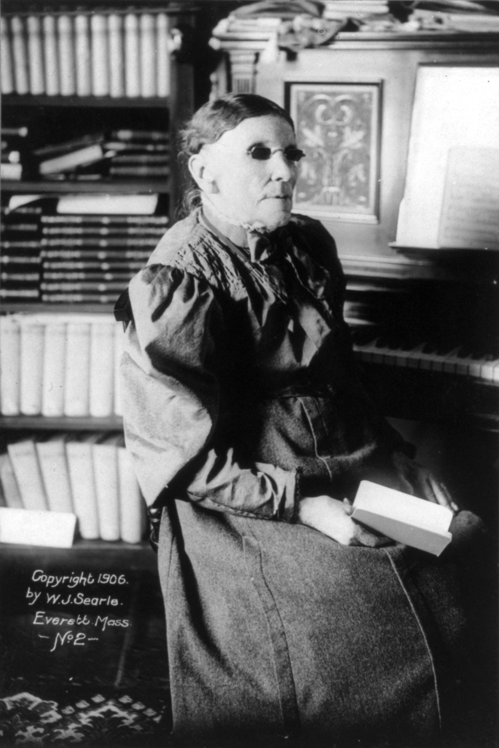 Fanny Crosby, American evangelist